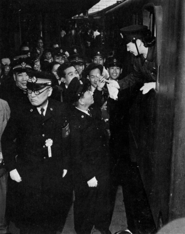 The department celemony of the limited express train Hato to commemorate the 80th anniversary of the Japanese railways opening, with Uchida Hyakken (1889 - 1971, writer), Matsui Suisei (1900 - 1973, benshi/actor) and Nishizaki Midori (I) (1911 - 1957, dancer), in Tōkyō Station, Platform 10.